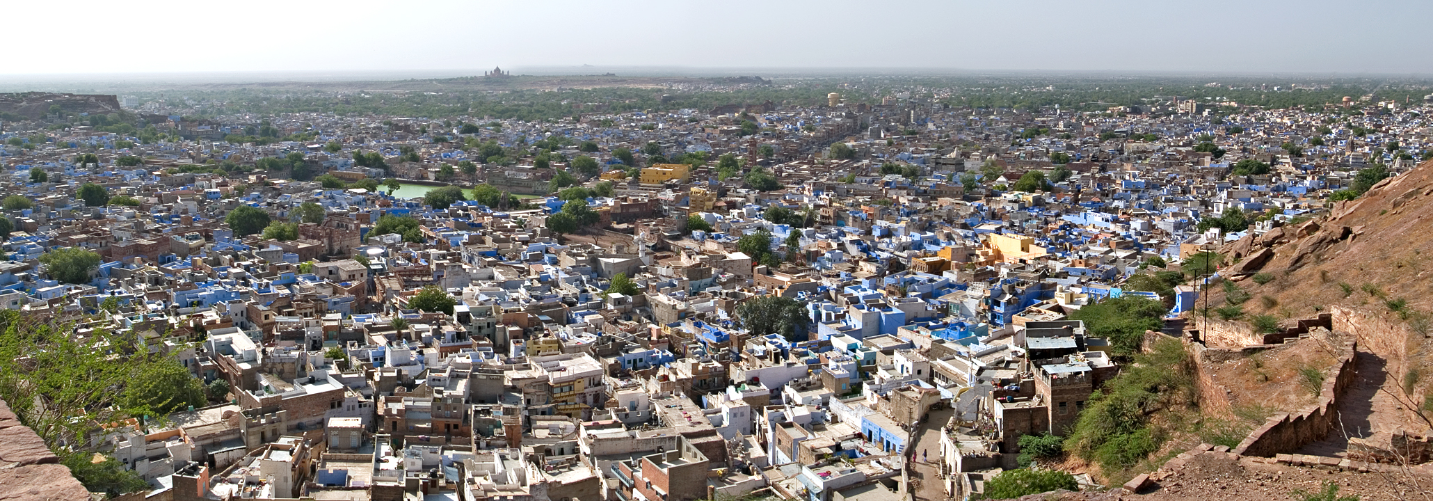 Jodhpur (Rajasthan/India), the Blue City, spotted from Meherangarh-Fort own photo, may 17, 2005 photo: nomo/michael hoefner